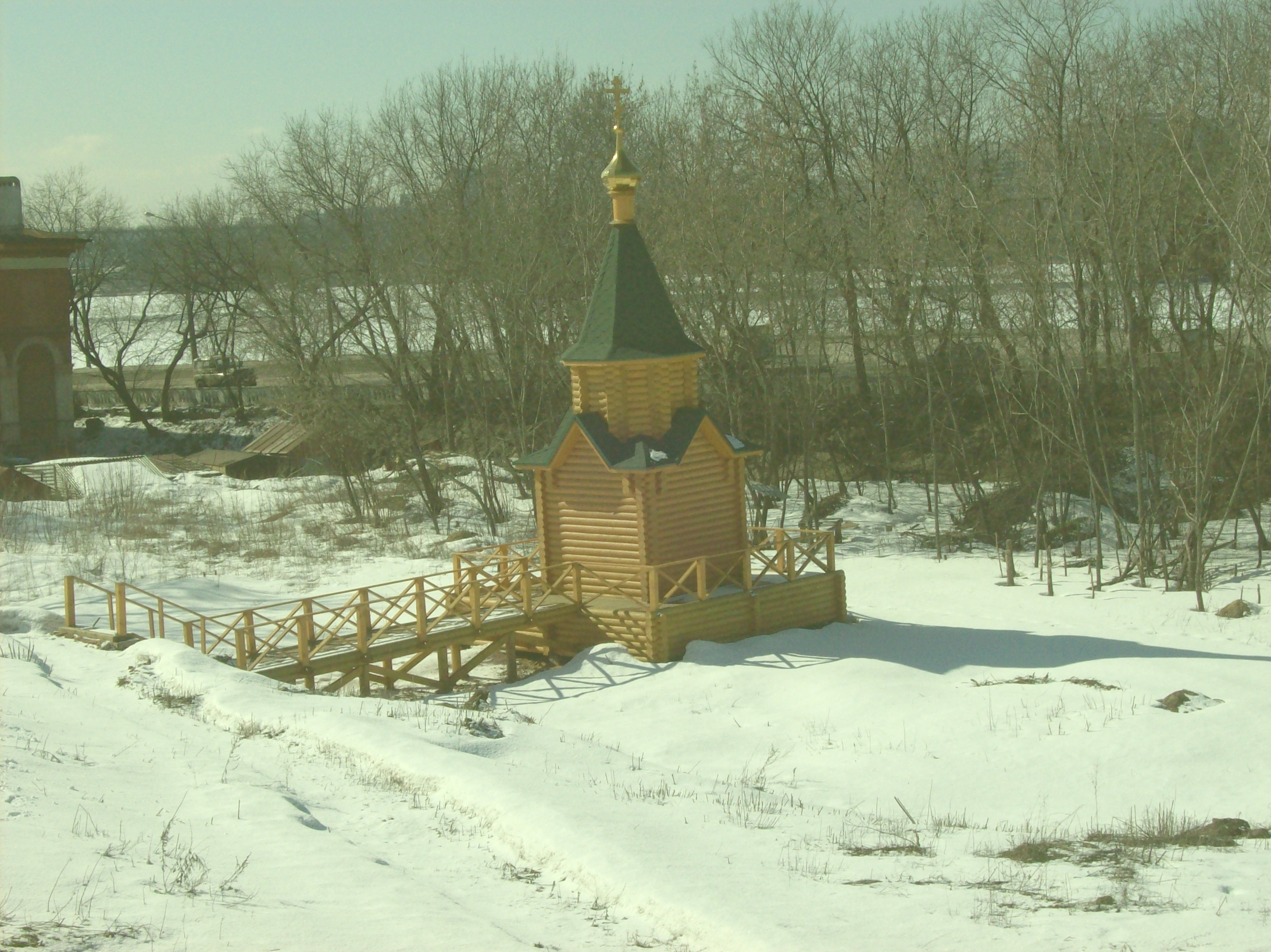 Blagoveschensky_monastery_in_Nizhny_Novgorod